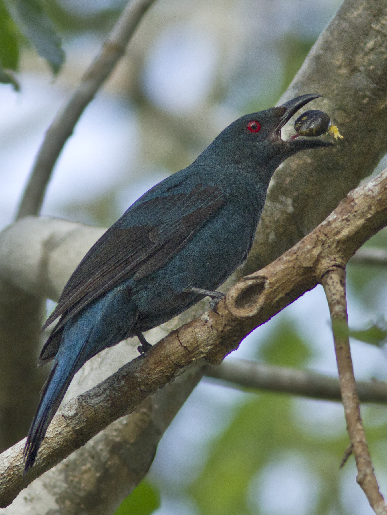 Asian Fairy Bluebird at Andaman & Nicobar Islands (Mount Harriett National Park)